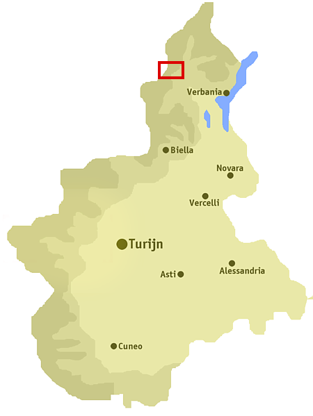 Position of the valley Val Bognanco